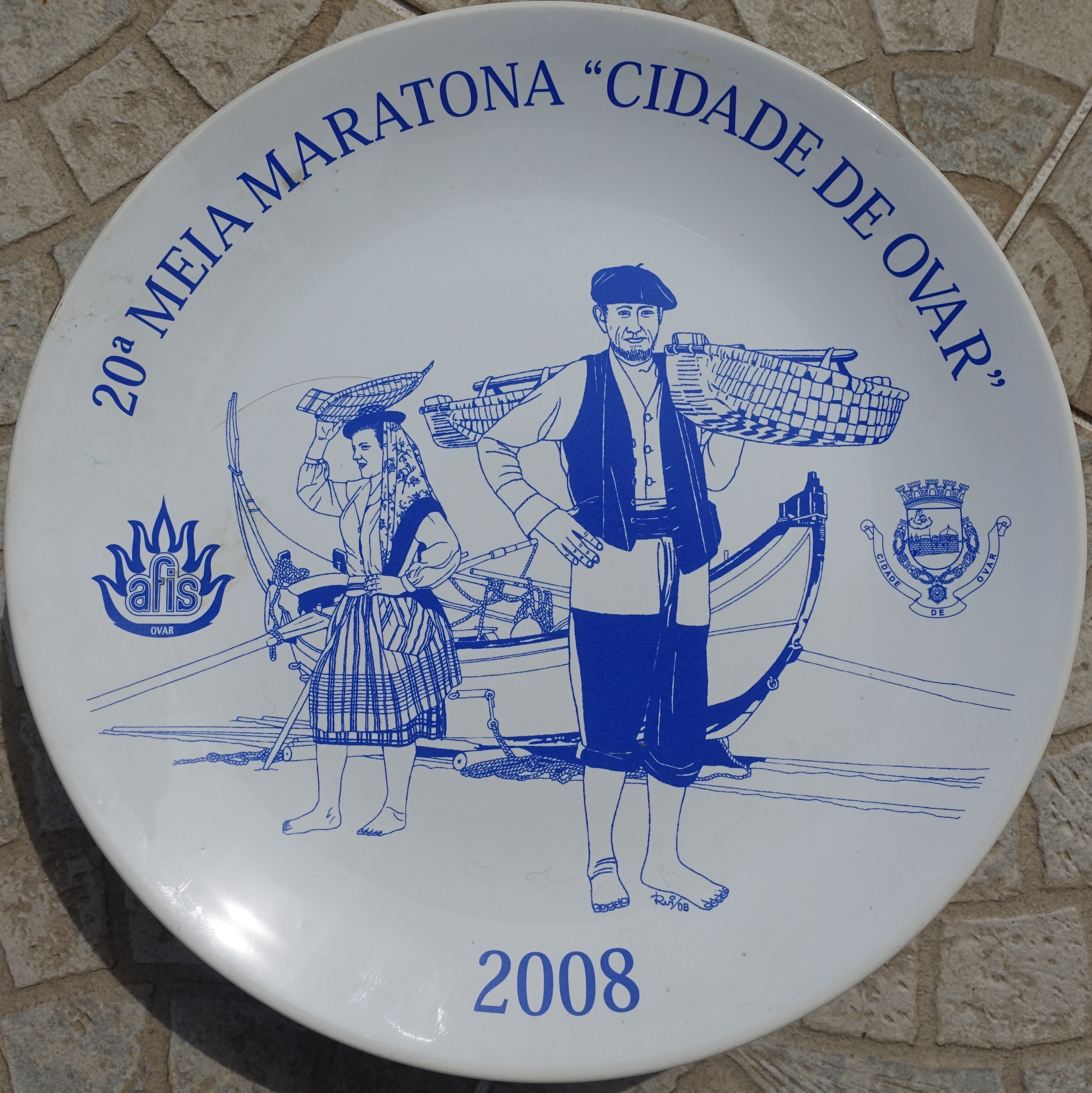 Commemorative plate of Ovar Half marathon, Portugal